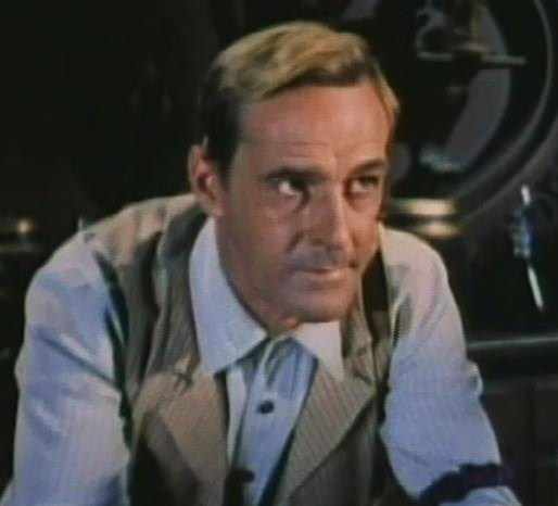 Arthur Space in Rage at Dawn - cropped screenshot